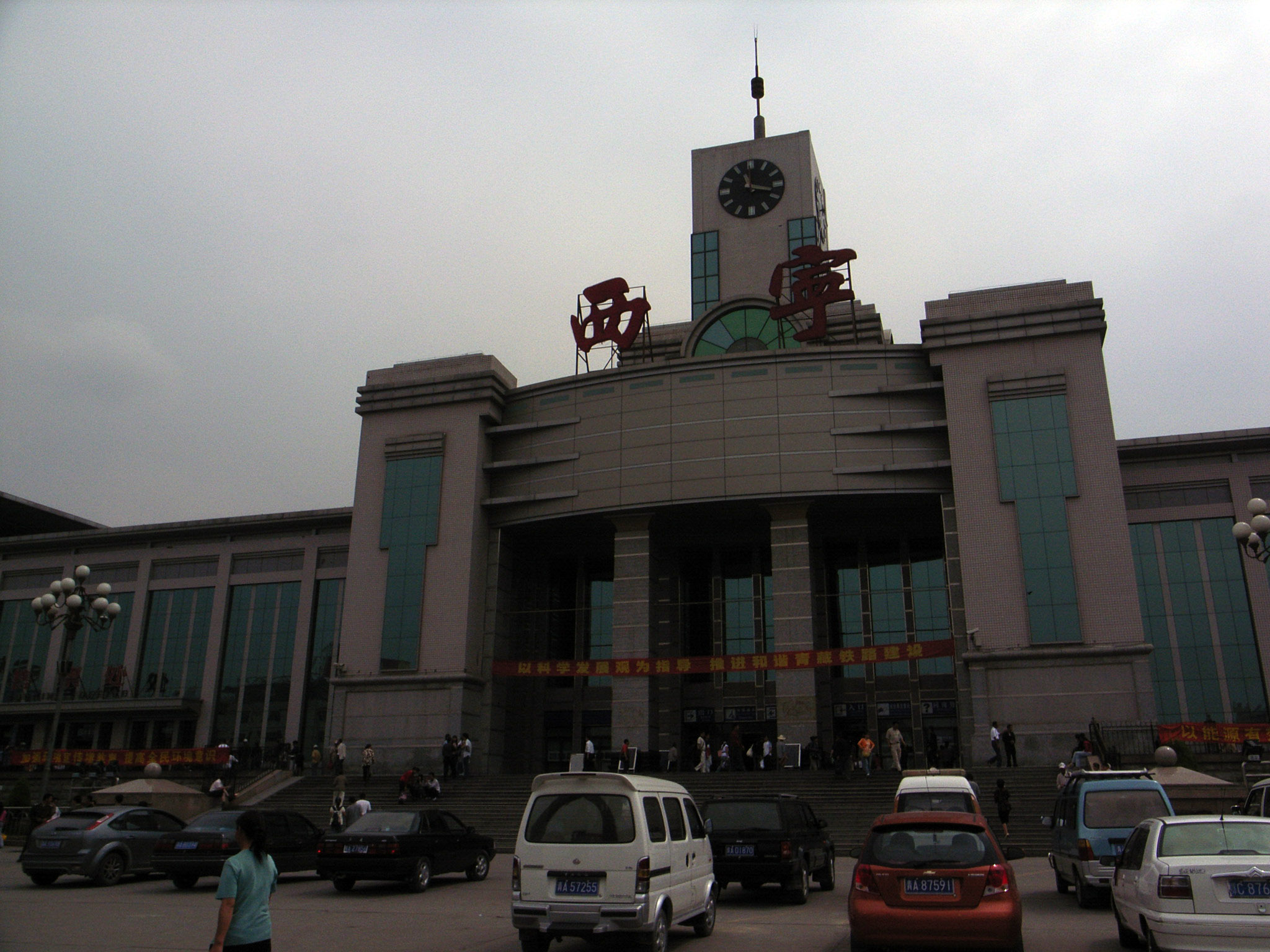 Xining railway Station